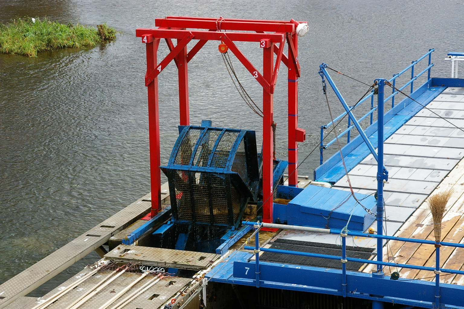 Indian water wheel at Chitose Salmon Aquarium in Chitose City, Hokkaido, Japan